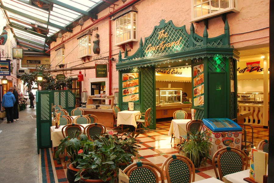 Weymouth: The Courtyard inside Brewers Quay